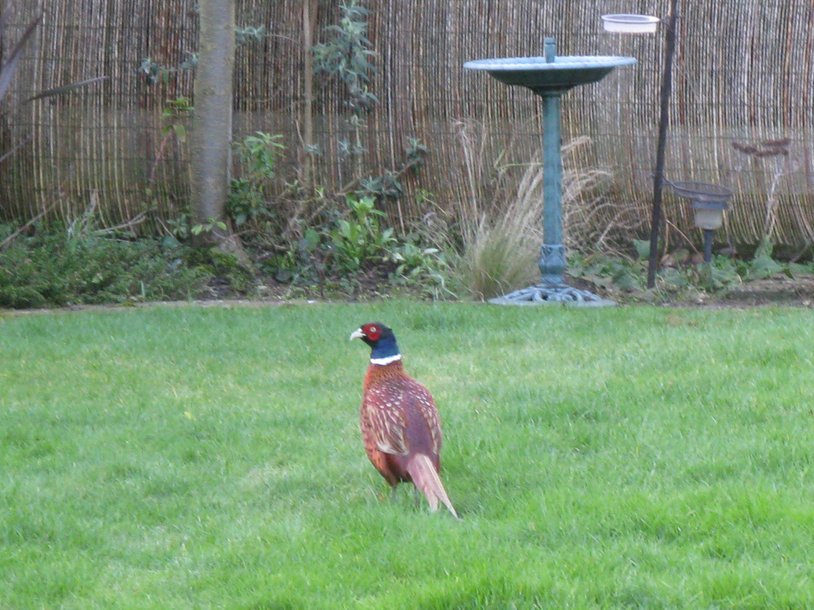 A male Common Pheasant (Phasianus colchicus) that had found it's way into my garden on the morning of February 1, 2008